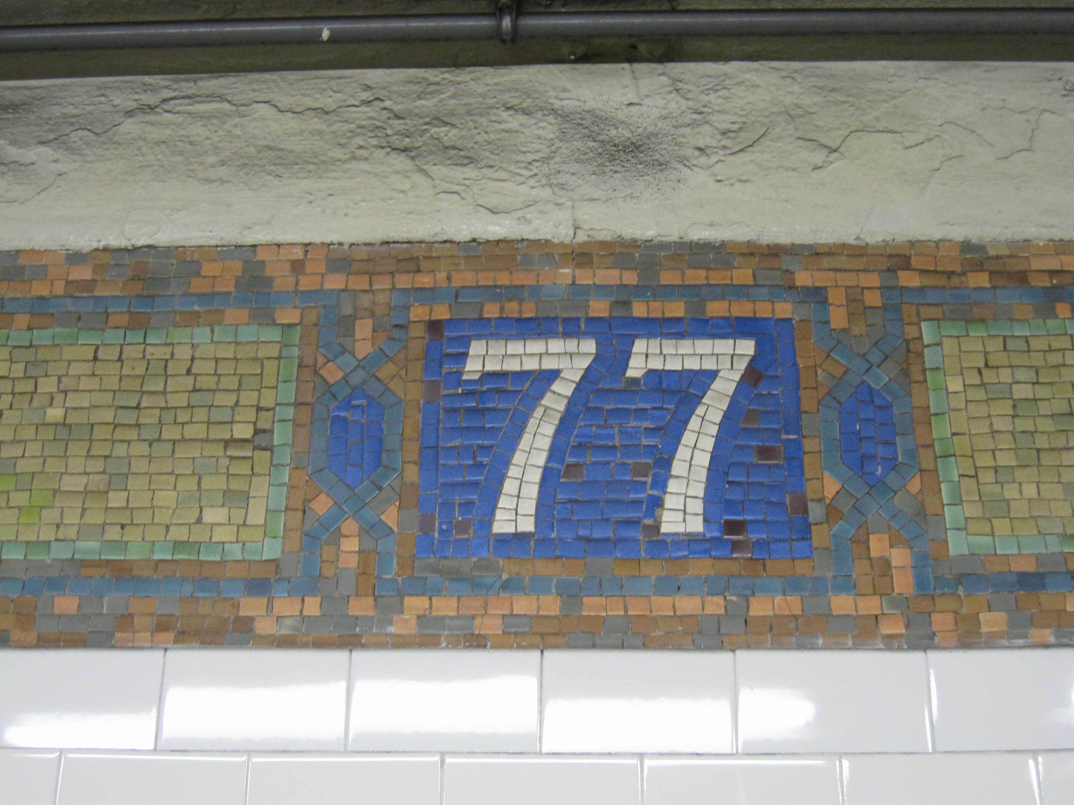 77th Street (IRT Lexington Avenue Line)